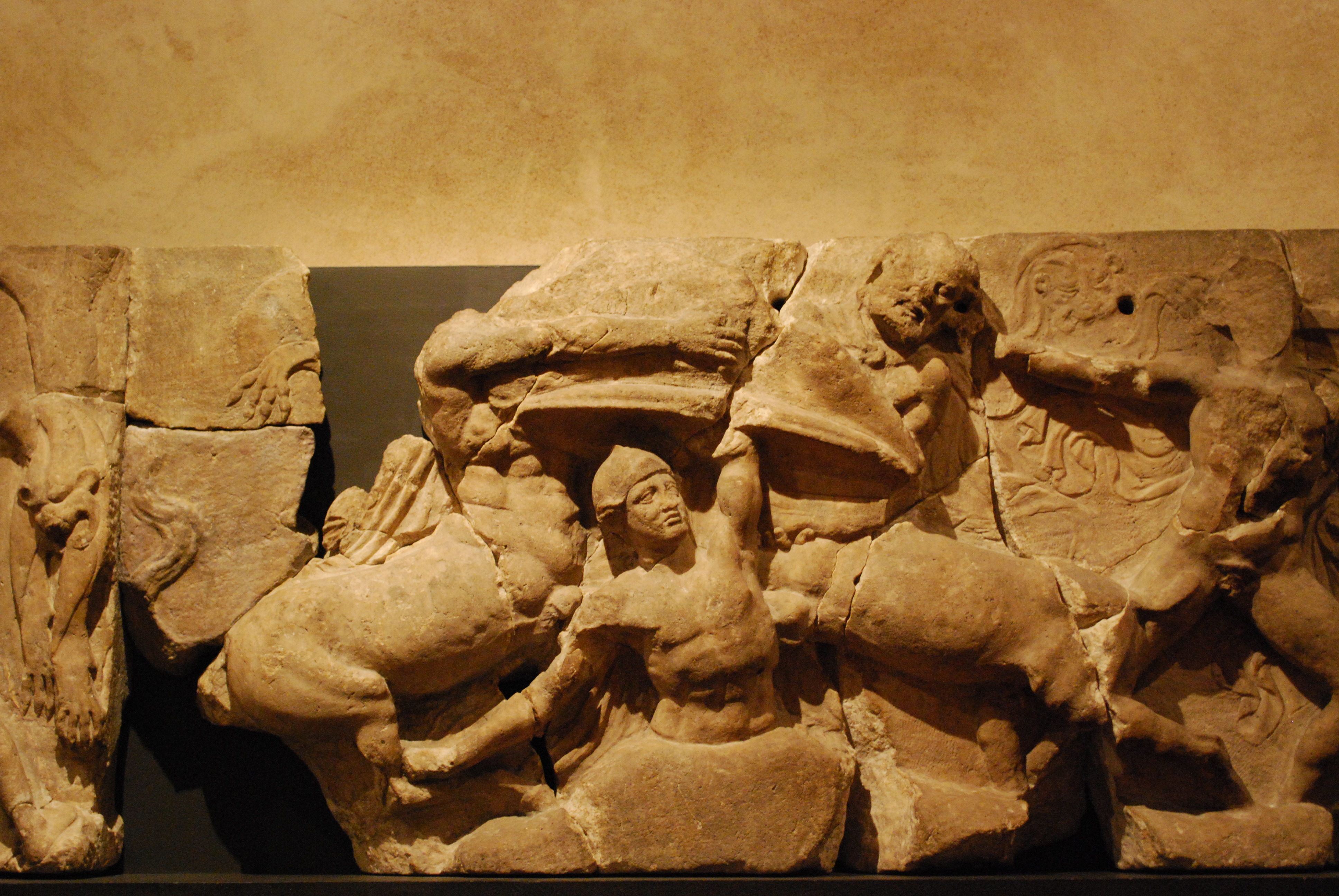 The Bassae Frieze is made from a set of 23 marble panels that were in the Temple of Apollo at Bassae. They were carved just before 400 B.C. The stones are on permanent display in a specially constructed room in Gallery 16 in the British Museum in London. Copies of this frieze decorated the walls of the Ashmolean Museum and London's Travellers Club. (Note the source numbers below show the order of the pictures)